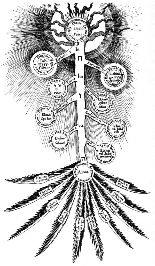 Original image description from the Deutsche Fotothek